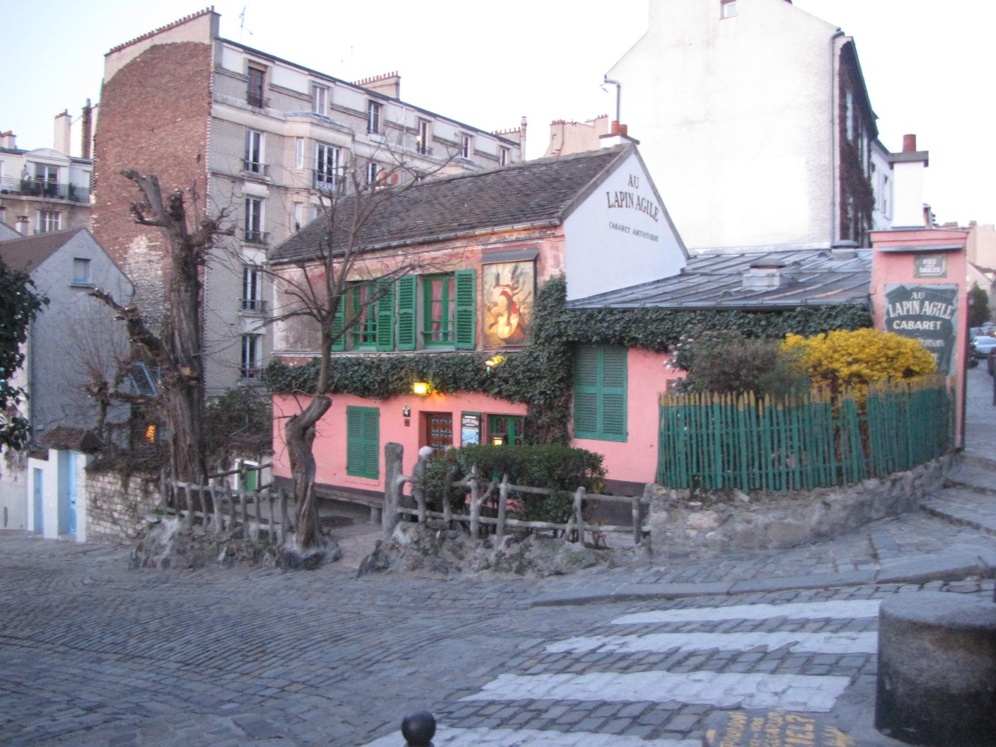 Lapin Agile